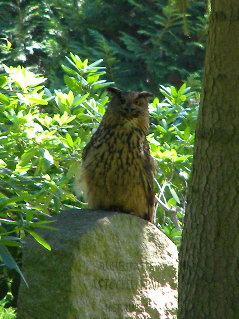 Eurasian Eagle-Owl on a tombstone in Ohlsdorf Cemetery, Hamburg, Germany, 2011